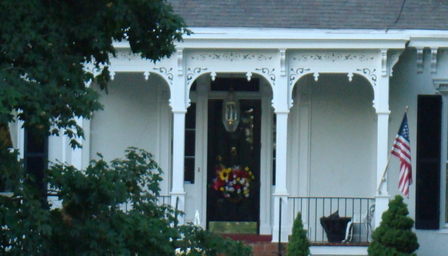 Details of Italianate style porch addition on the Payne-Desha House, an historic house in Georgetown, Kentucky that was built by a war hero from the Battle of the Thames, and also was the last residence of Joseph Desha, the ninth governor of Kentucky.